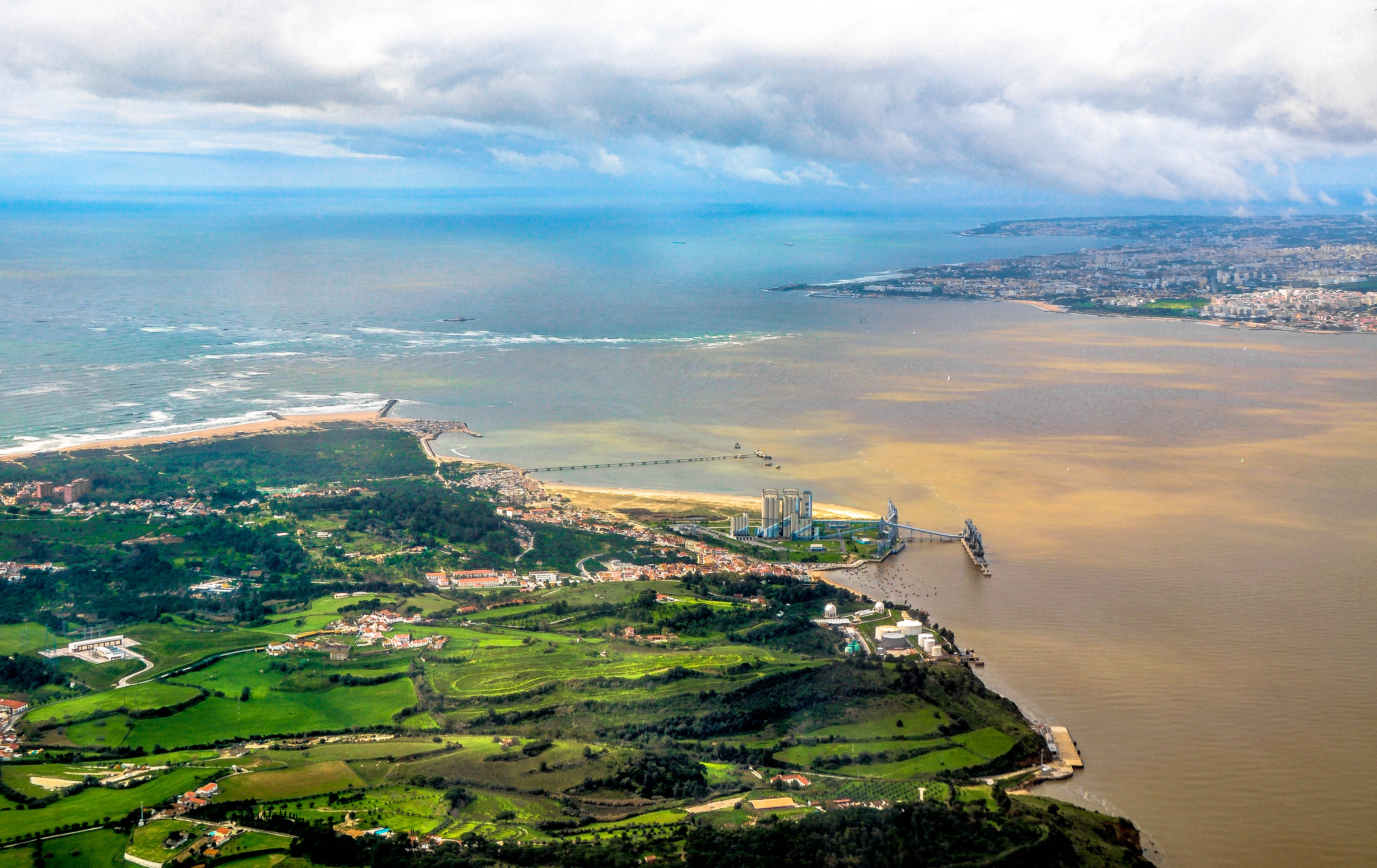 Portugal, Approach into Lisbon